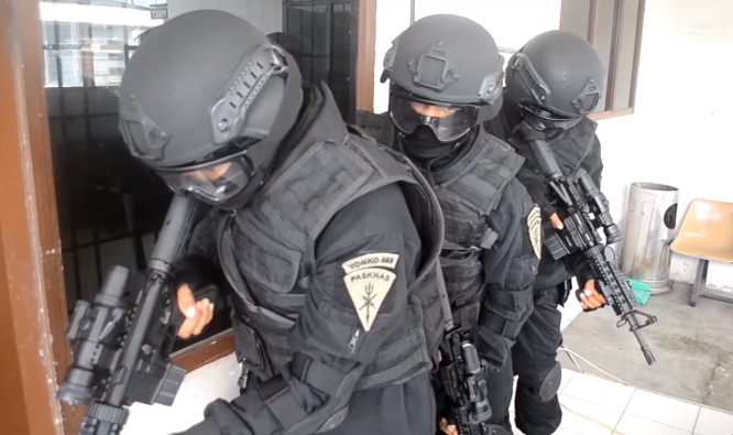 Paskhas special forces hostage rescue unit